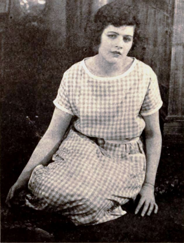 Still from the American drama film The Daughter Pays (1920) with Elaine Hammerstein, on page 74 of the November 20, 1920 Exhibitors Herald.